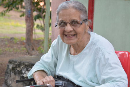 she is wife of Dr.Kalbhag